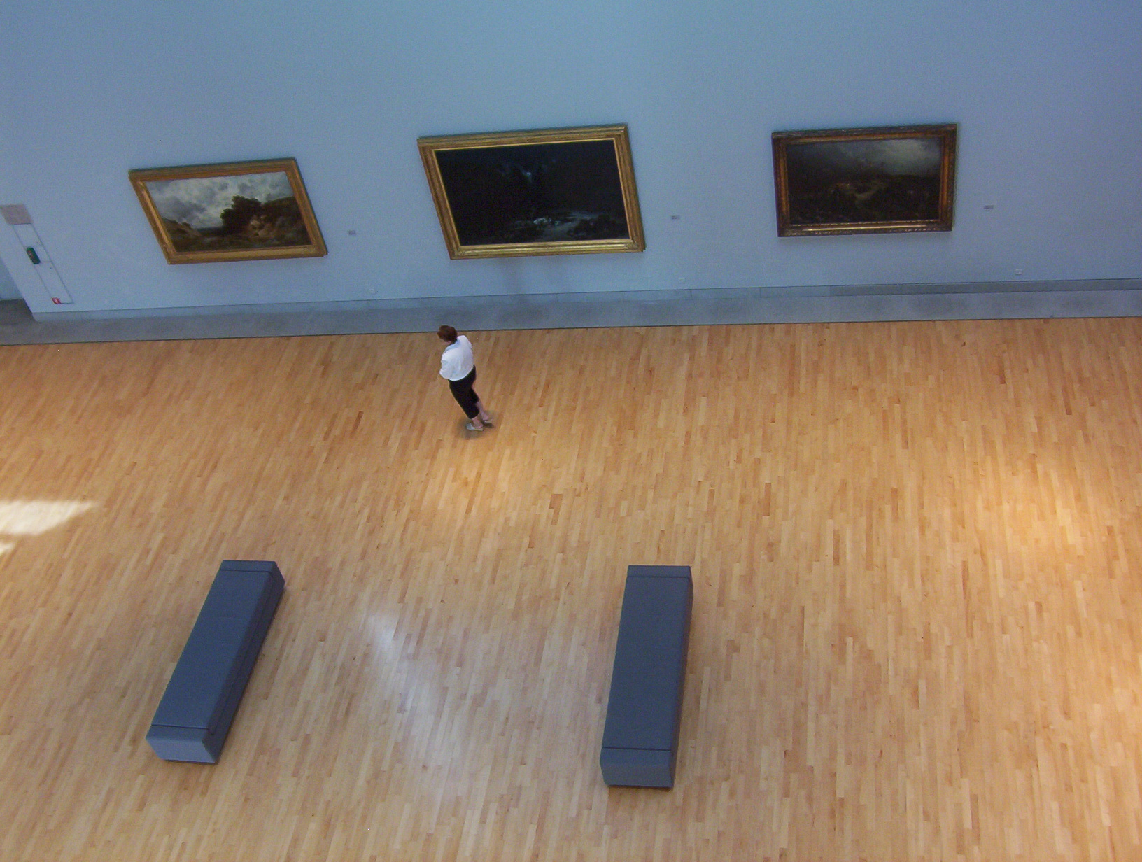 high-angle shot; bird's eye view on the Doré room of the Strasbourg Museum of modern and contemporary art